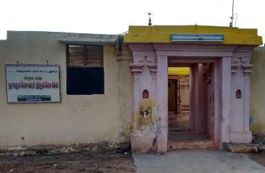 Thanjavur naganagesvarartemple தஞ்சாவூர் நாகநாகேசுவரர் கோயில்